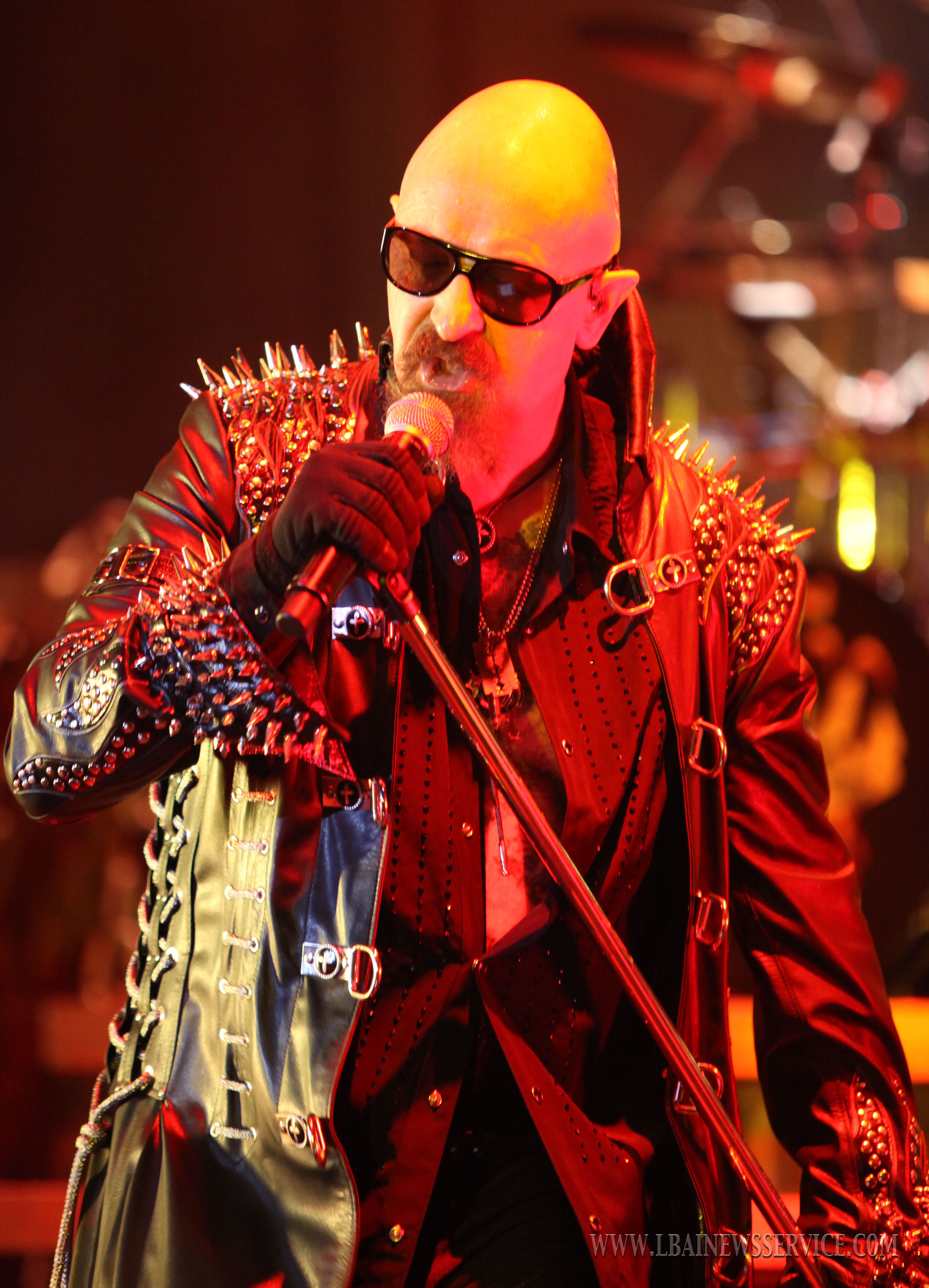 Rob Halford, Judas Priest singer, in Miami.